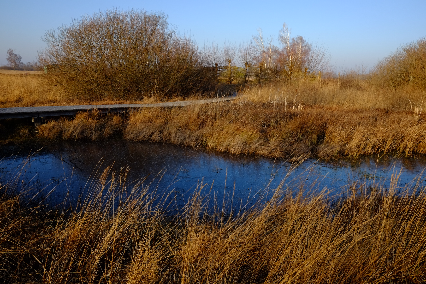 Leipheimer Moos, Bayern